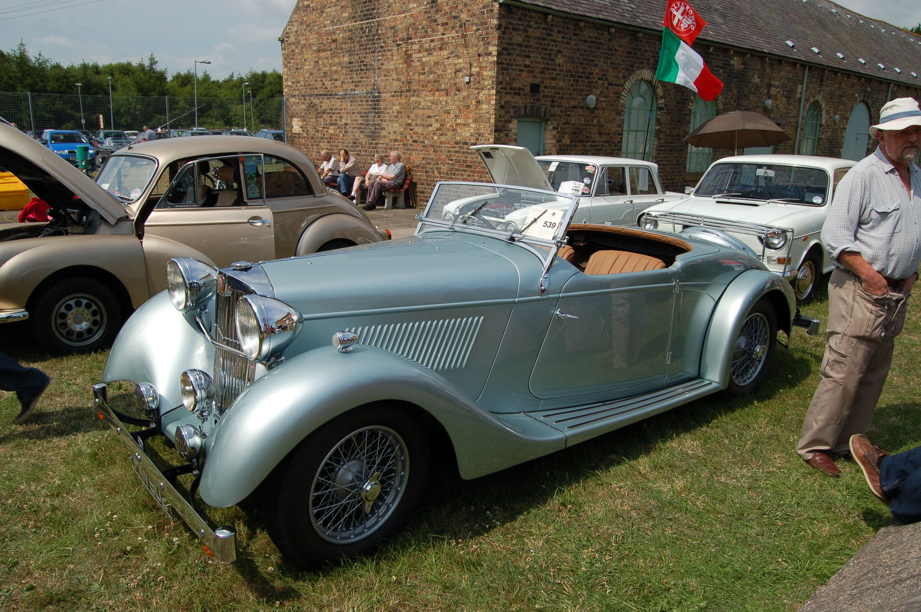 1939 Lea Francis open 2-seater DVLA first registered 9 June 1939, 1631cc Woodhorn Classic Car Show 14 July 2013